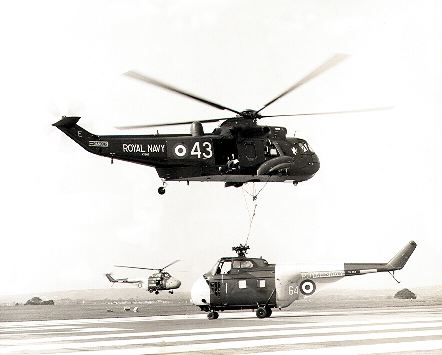 Westland Sea King HAS.1 XV 665 lifts a faulty engine Westland Whirlwind HAS.7 from a site north RNAS Culdrose back to homebase in April 1971 The original image Image:Sea King and Whirlwind.jpg was improved thanks to it.wiki graphic lab courtesy